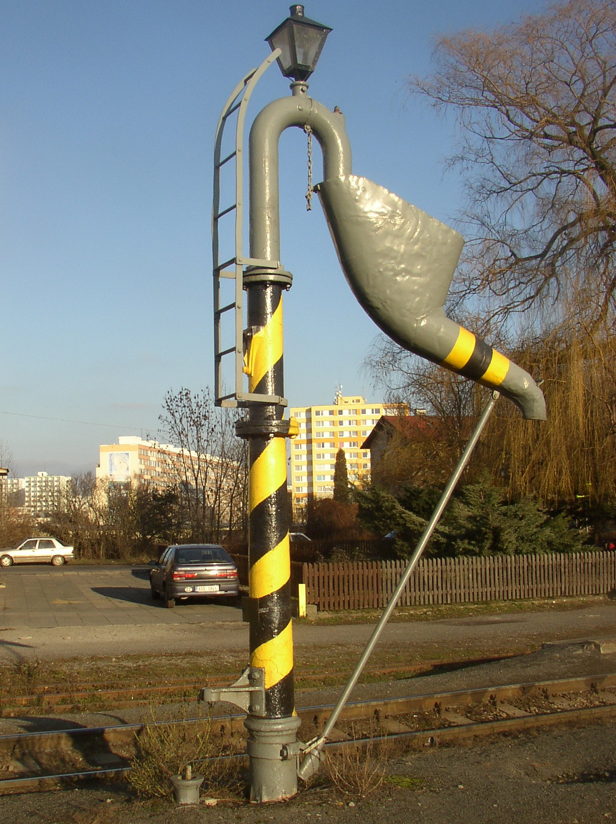 Water crane for steam locomotives supply in Kladno railway station, Czech Republic.